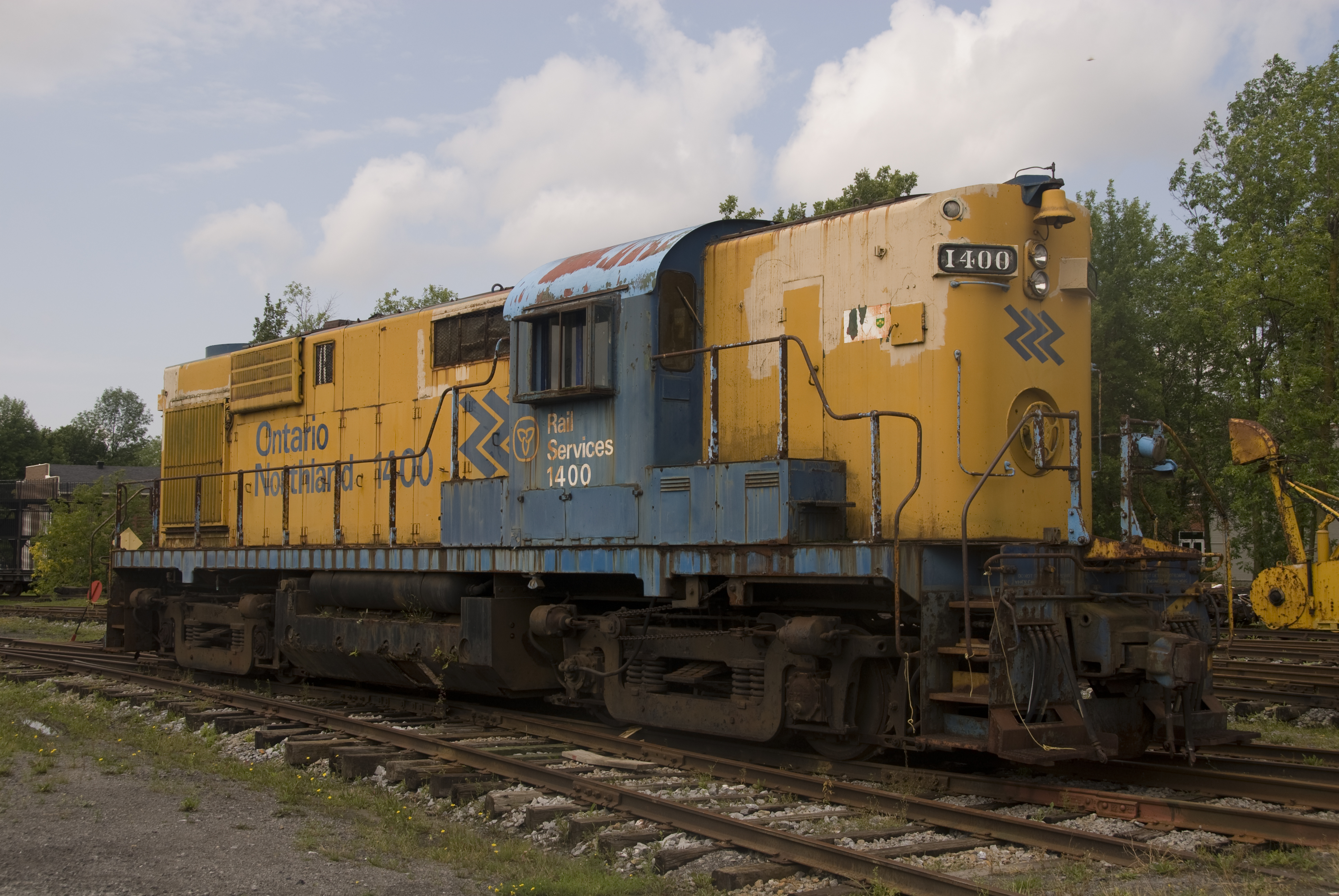 Ontario Northland Railway Montreal Locomotive Works RS-10 at the Canadian Railway Museum